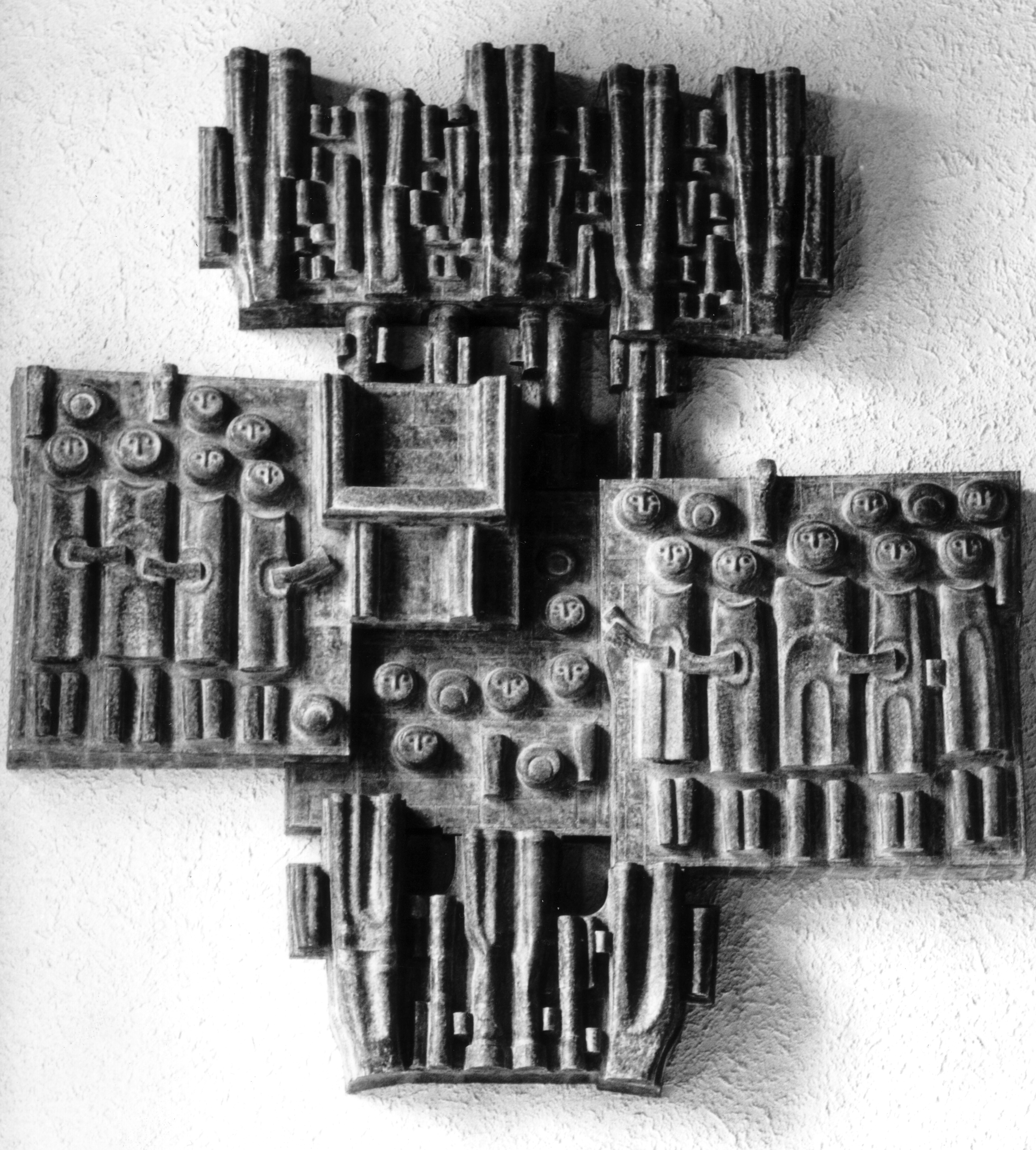 Das Gericht (The Court) by Albrecht Glenz. Bronce relief. Formerly courthouse in Hanau, now: courthouse Idstein